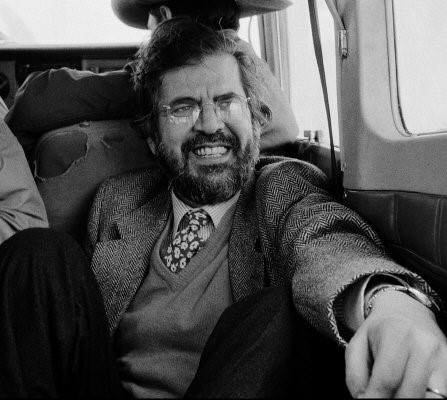 BOLIVIA, La Paz, Italian Journalist Giancesare FLESCA